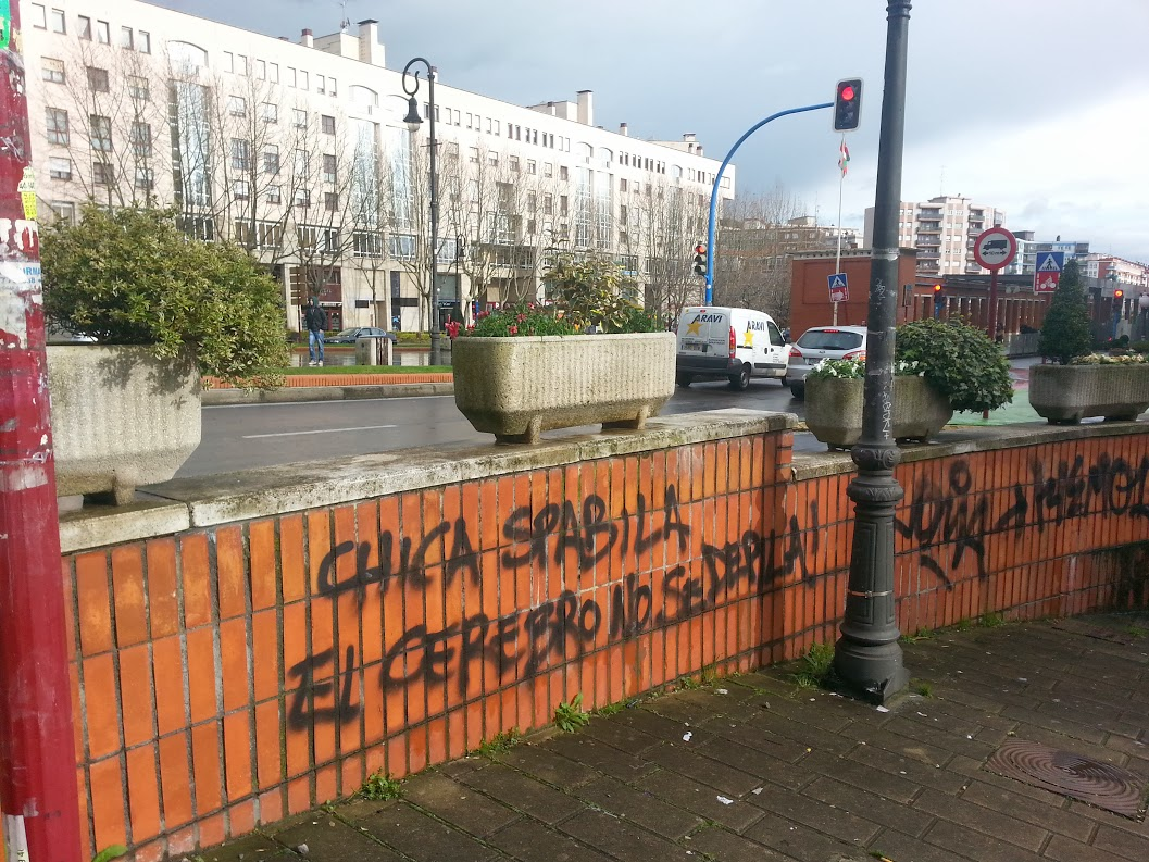 Graffiti against waxing. Leioa. Biscay. Basque Country.